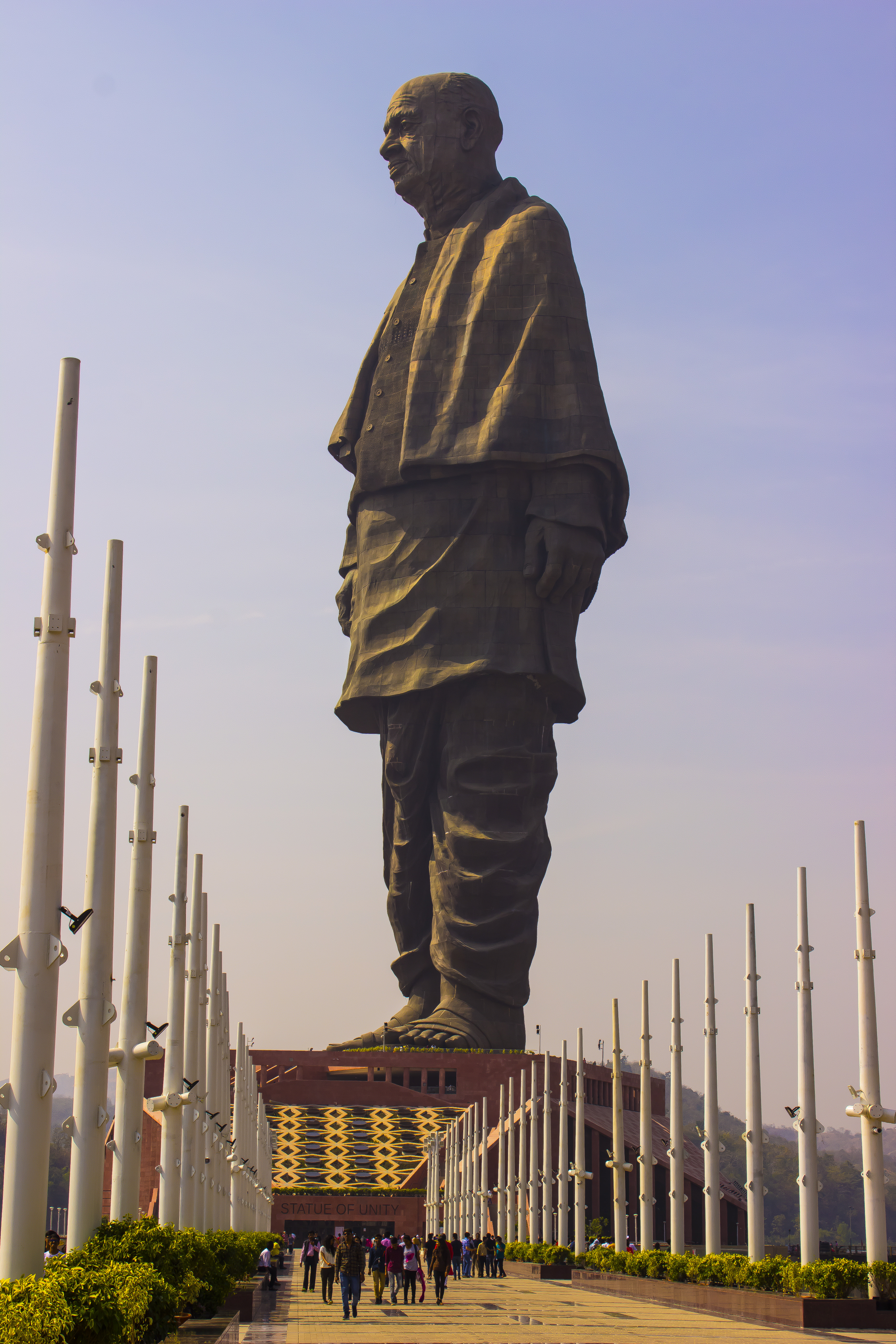 The Statue of Unity is the world's tallest statue with a height of 182 metres (597 ft). It is a colossal statue of Indian statesman and independence activist Sardar Vallabhbhai Patel (1875–1950) who was the first Home minister of India and the chief adherent of Mahatma Gandhi during the non-violent Indian Independence movement; highly respected for his leadership in uniting the 562 princely states of India to form the single large Union of India. It is located in the state of Gujarat, India. It is located on a river island facing the Sardar Sarovar Dam on river Narmada in Kevadiya colony, 100 kilometres (62 mi) southeast of the city of Vadodara. ગુજરાતી: સ્ટેચ્યુ ઓફ યુનિટીએ વિશ્વની સૌથી ઊંચી પ્રતિમા છે. ભારતીય સ્વતંત્રતા ચળવળના નેતા વલ્લભભાઈ પટેલને સમર્પિત આ સ્મારક સરદાર સરોવર બંધની સામે 3.2 km (2.0 mi) નર્મદા નદીમાં આવેલા સાધુ બેટ પર આવેલું છે.